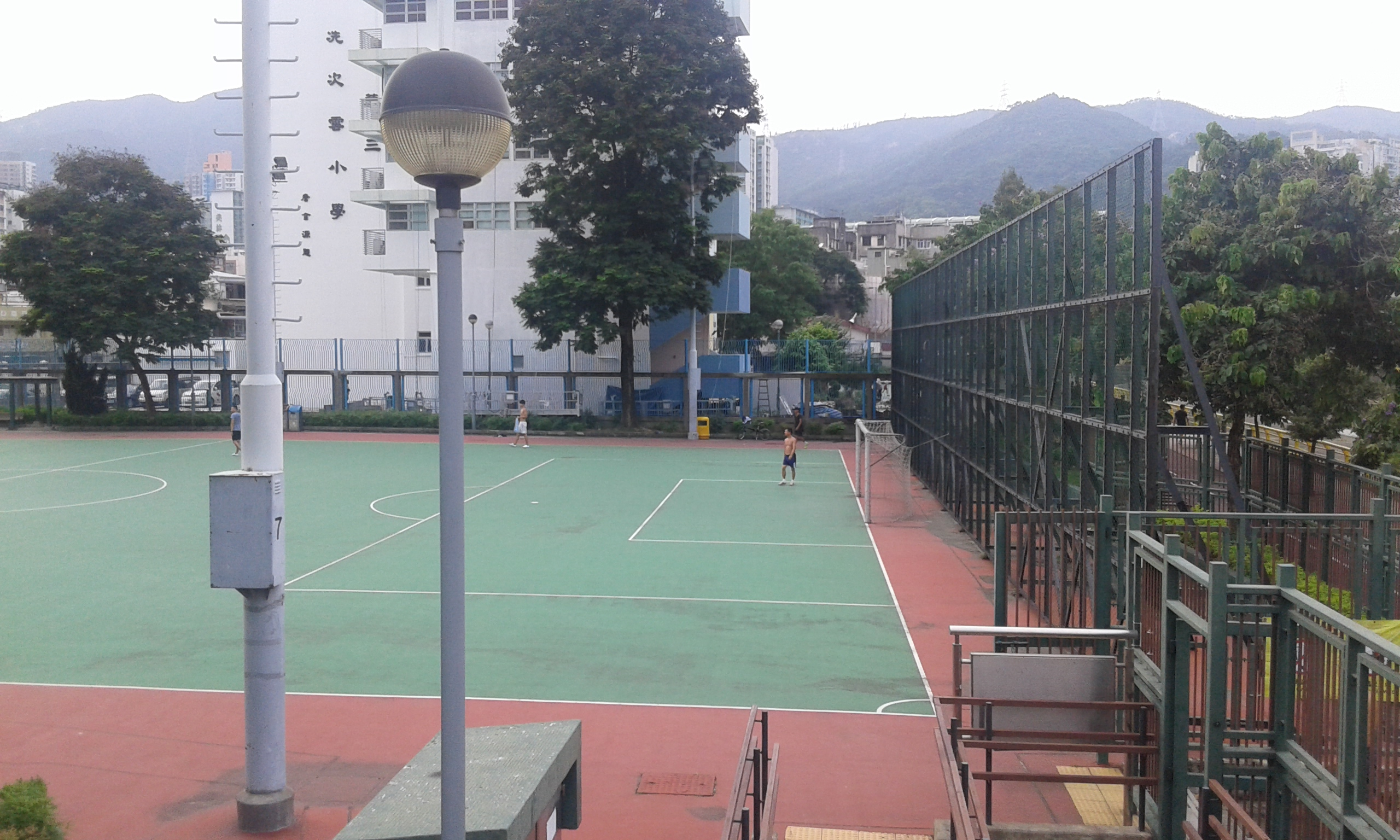 Tai Wai Playground, Tai Wai, Sha Tin District, Hong Kong.